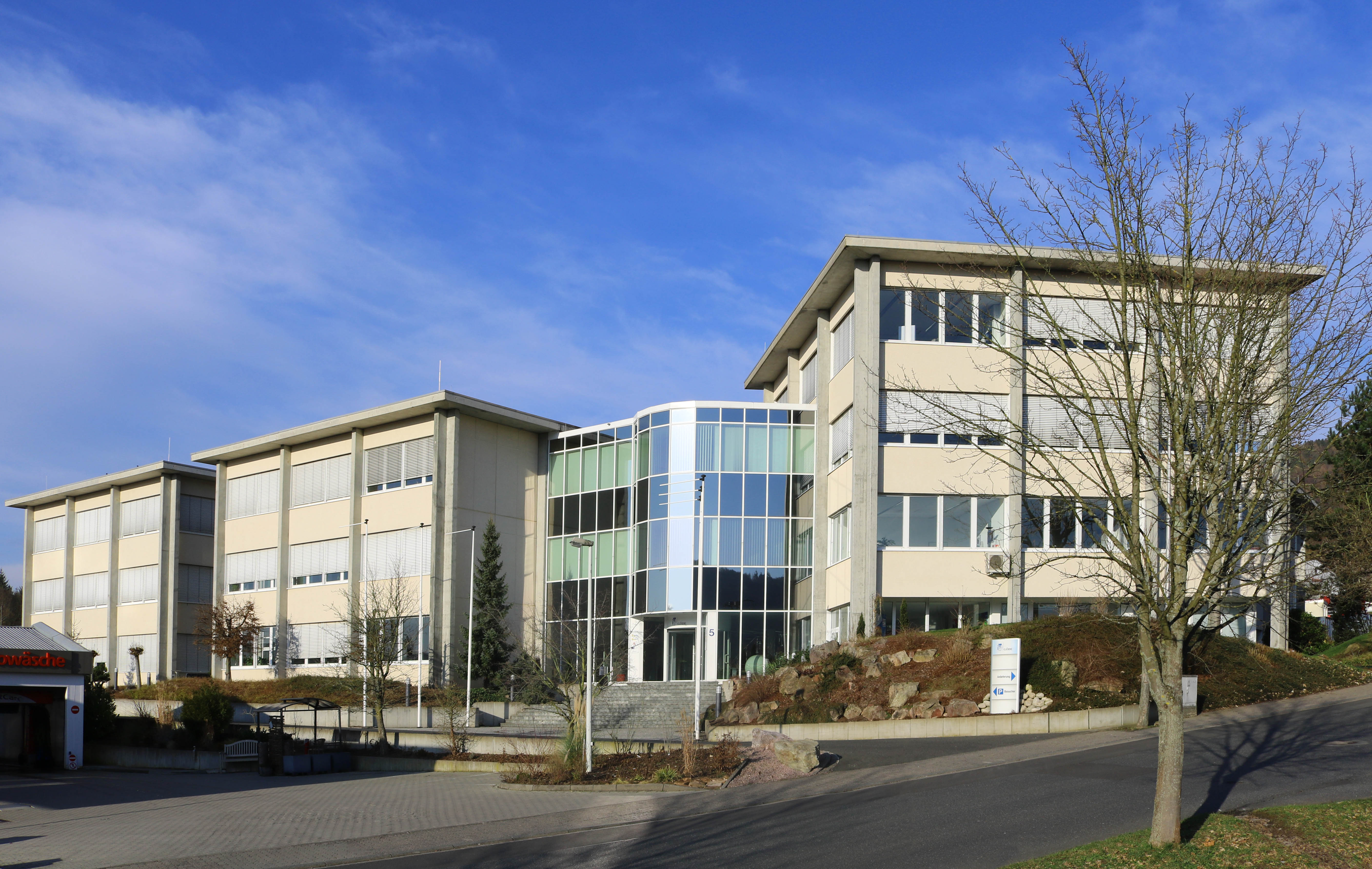 Headquarters of the Göde Holding in Waldaschaff, Germany